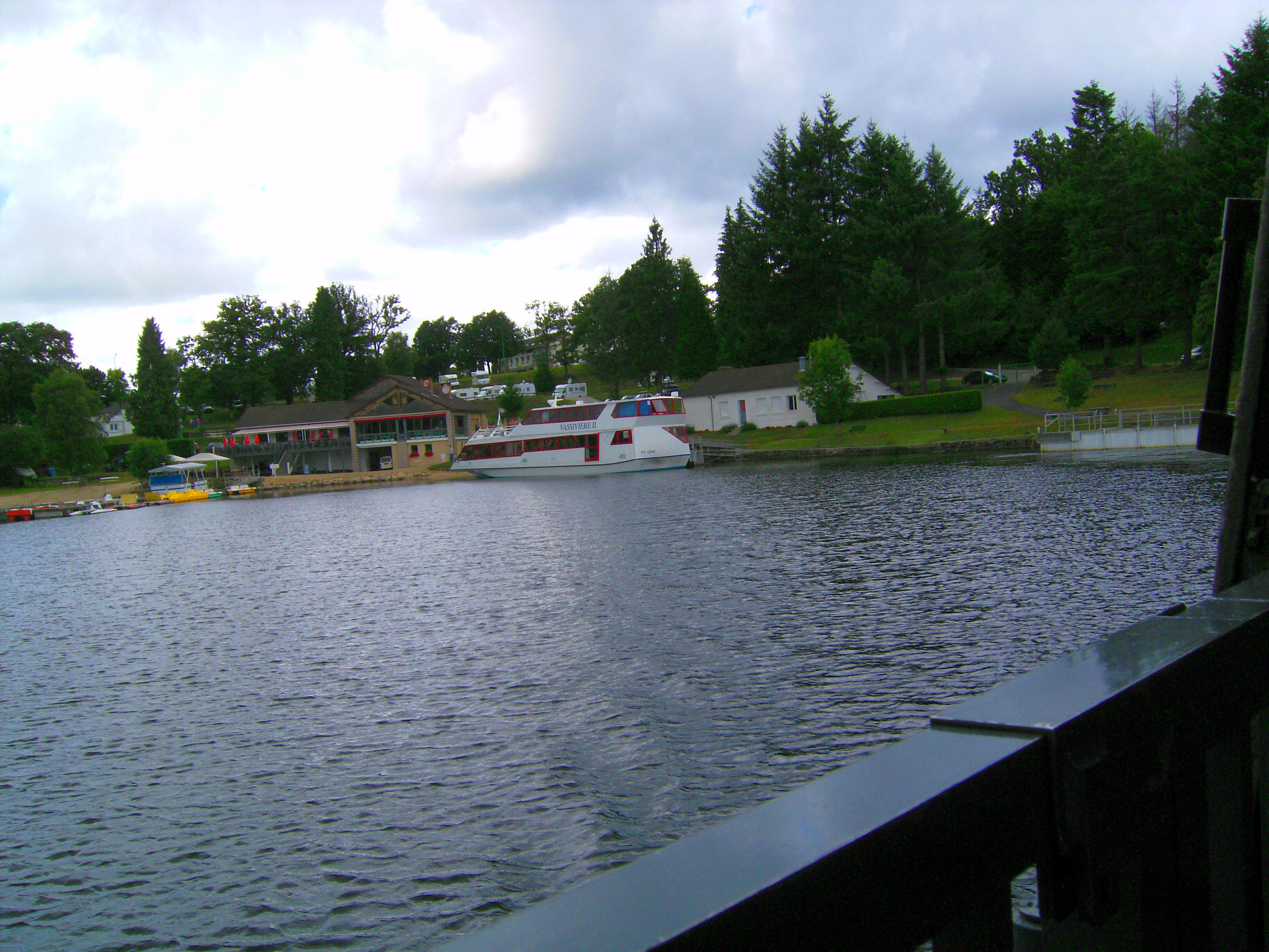 Port at Auphelle on Lac de Vassiviere.